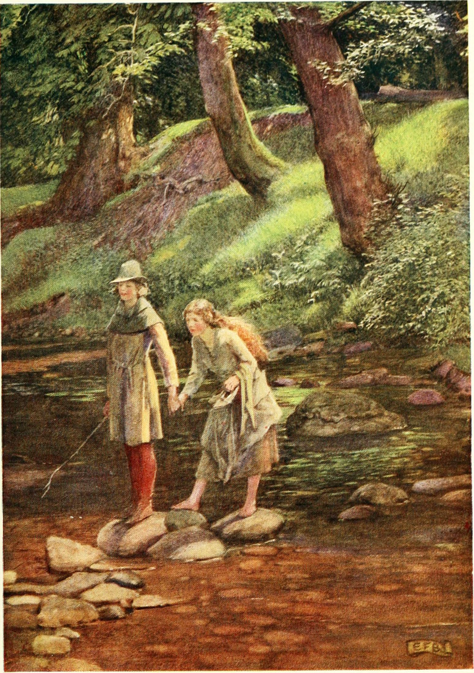 Title: Eleanor Fortesque Brickdale's Golden book of famous women Year: 1919 (1910s) Authors: Fortescue-Brickdale, Eleanor Subjects: Women in literature Publisher: London New York : Hodder and Stoughton Text Appearing Before Image: y/-^. m Text Appearing After Image: TO MARY UNWIN Mary ! I want a lyre with other strings, Such aid from Heaven as some have feigned they drew, An eloquence scarce given to mortals, new And undebased by praise of meaner things. That, ere through age or woe I shed my wings, I may record thy worth with honour due, In verse as musical as thou art true, And that immortalizes whom it sings. But thou hast little need. There is a book By seraphs writ with beams of heavenly light, On which the eyes of God not rarely look, A chronicle of actions just and bright: There all thy deeds, my faithful Mary, shine, And, since thou ownst that praise, I spare thee mine. WILLIAM COWPER. ON THE RECEIPT OF MY MOTHERS PICTURE OUT OF NORFOLK Oh that those lips had language! Life has passed With me but roughly since I heard thee last. Those lips are thine—thy own sweet smile I see, The same that oft in childhood solaced me; Voice only fails, else how distinct they say, Grieve not, my child, chase all thy fears away! The meek intelligence of those dear eyes(